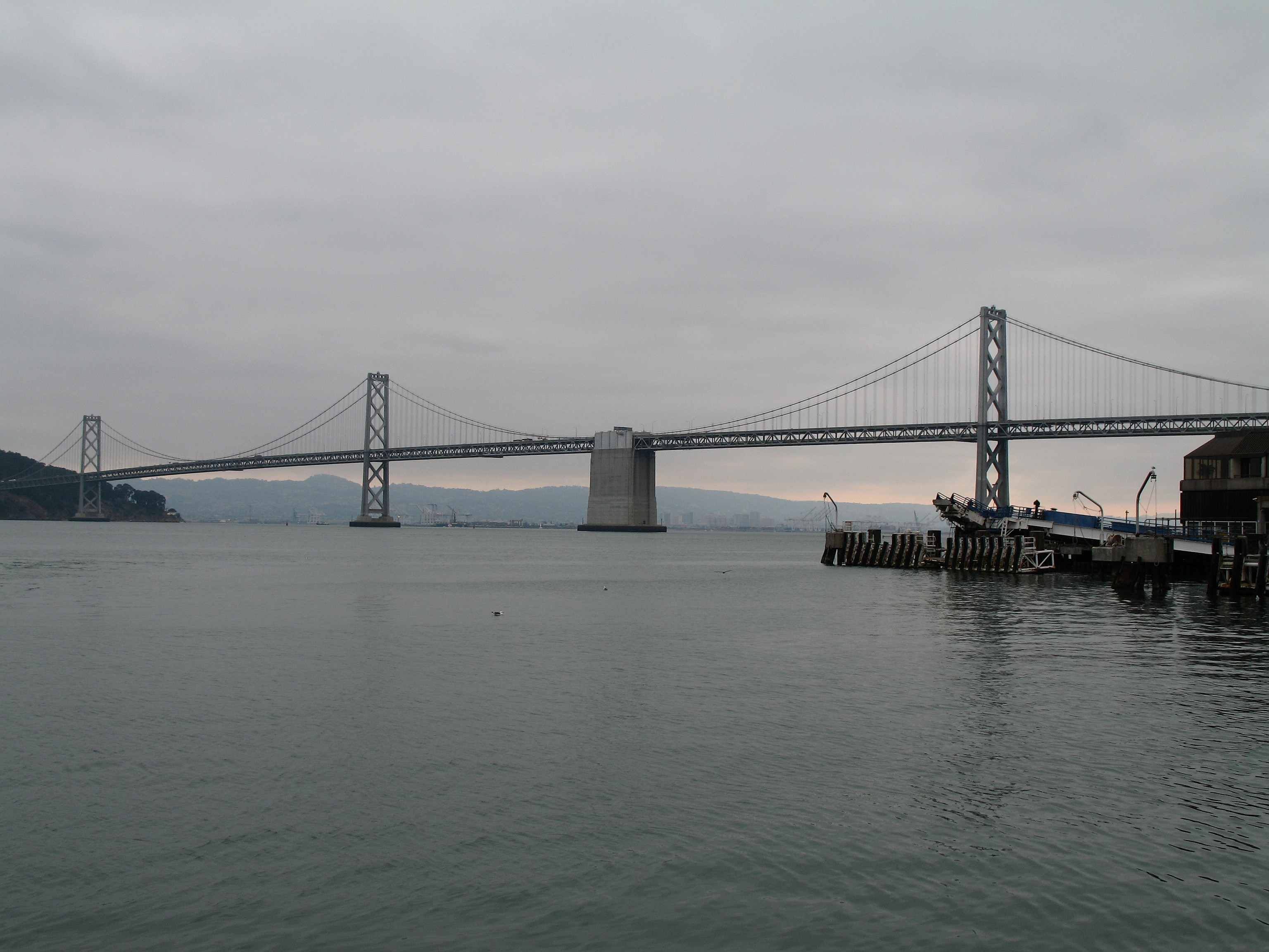 Oakland bridge in San Francisco